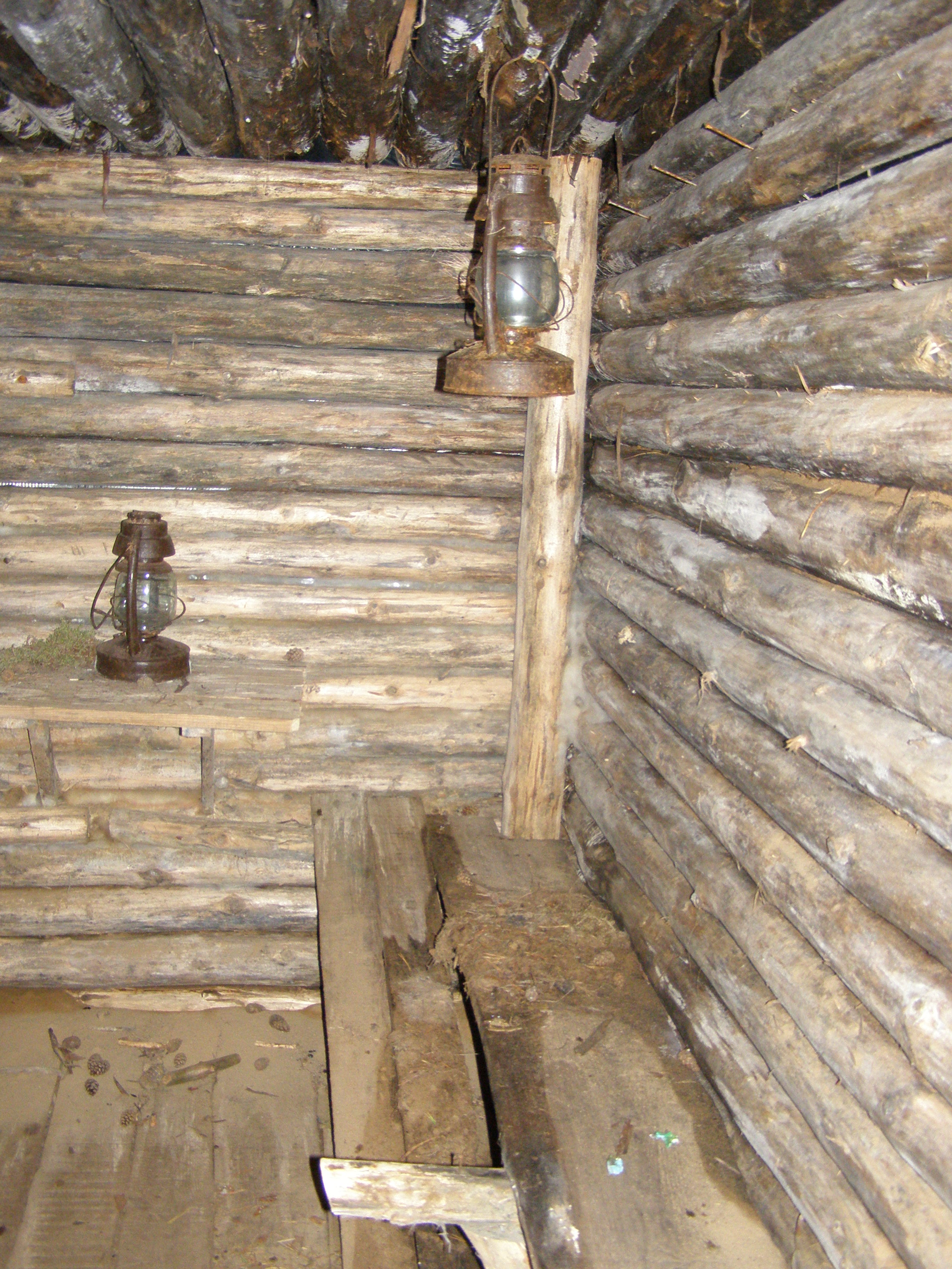 Žibininkai, Kretinga district, LithuaniaLietuvių: Narimanto kuopos partizanų žeminėje Vilimo kalne, Žibininkų k., Kretingos rajonas, Lietuva